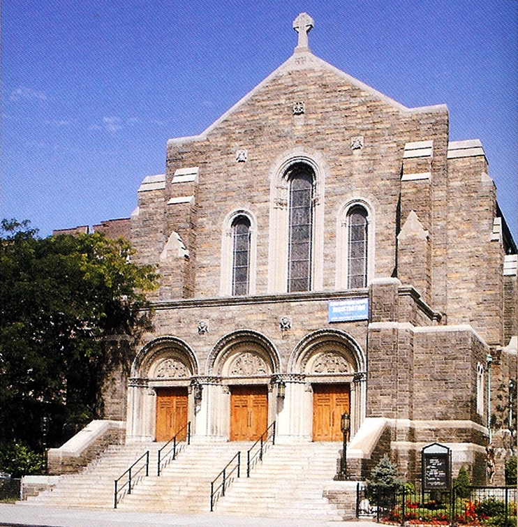 Exterior of Good Sheperd Catholic Church of New York City